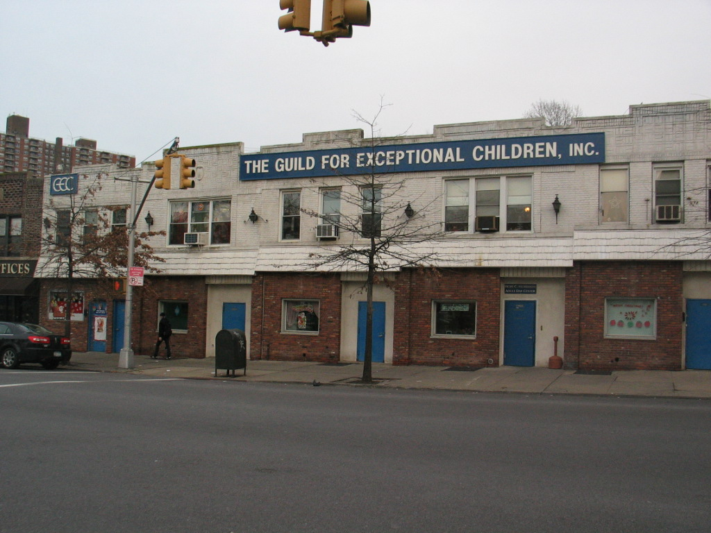 This brick house houses the main offices of the guild of exceptional children